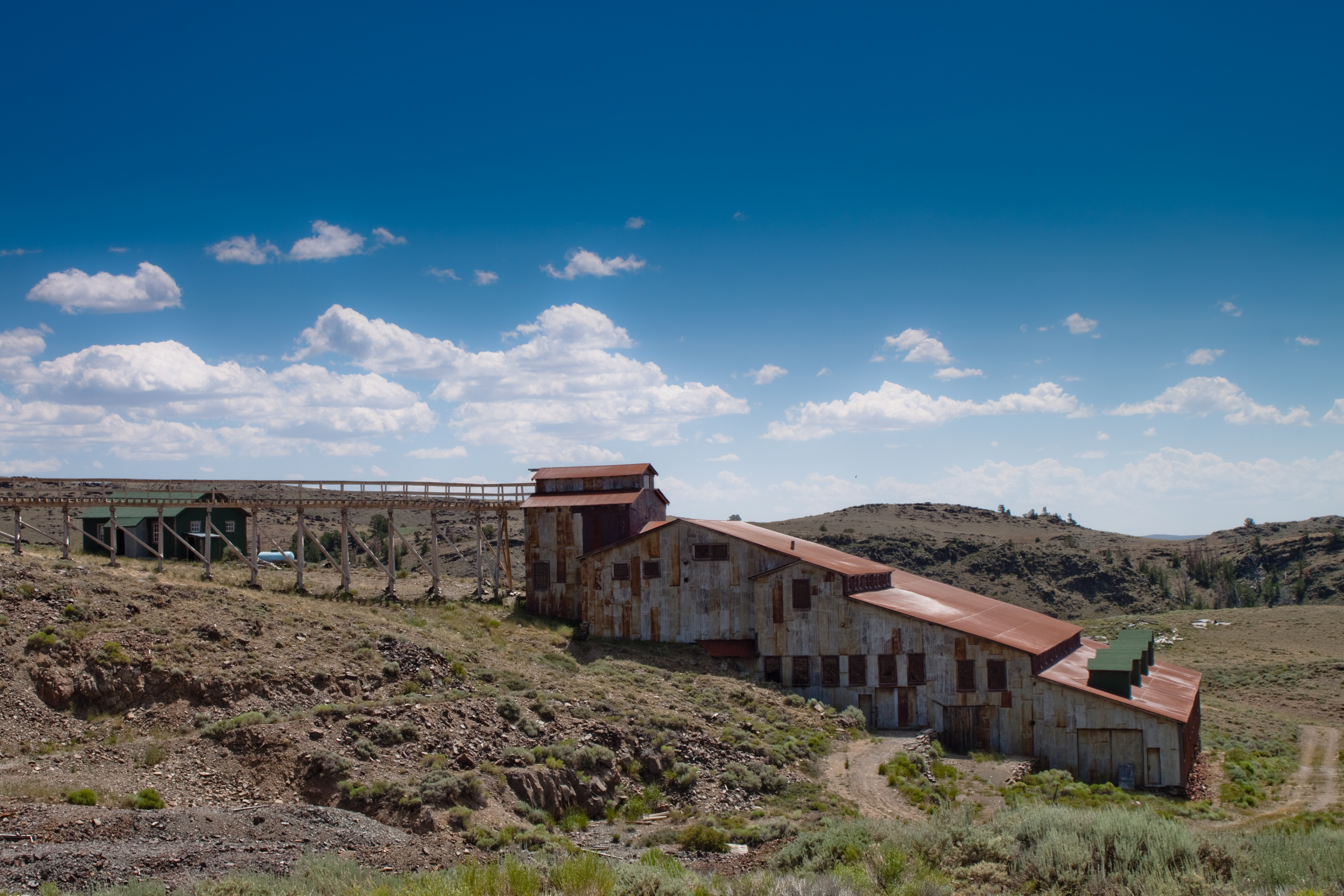 South Pass City, Wyoming, USA